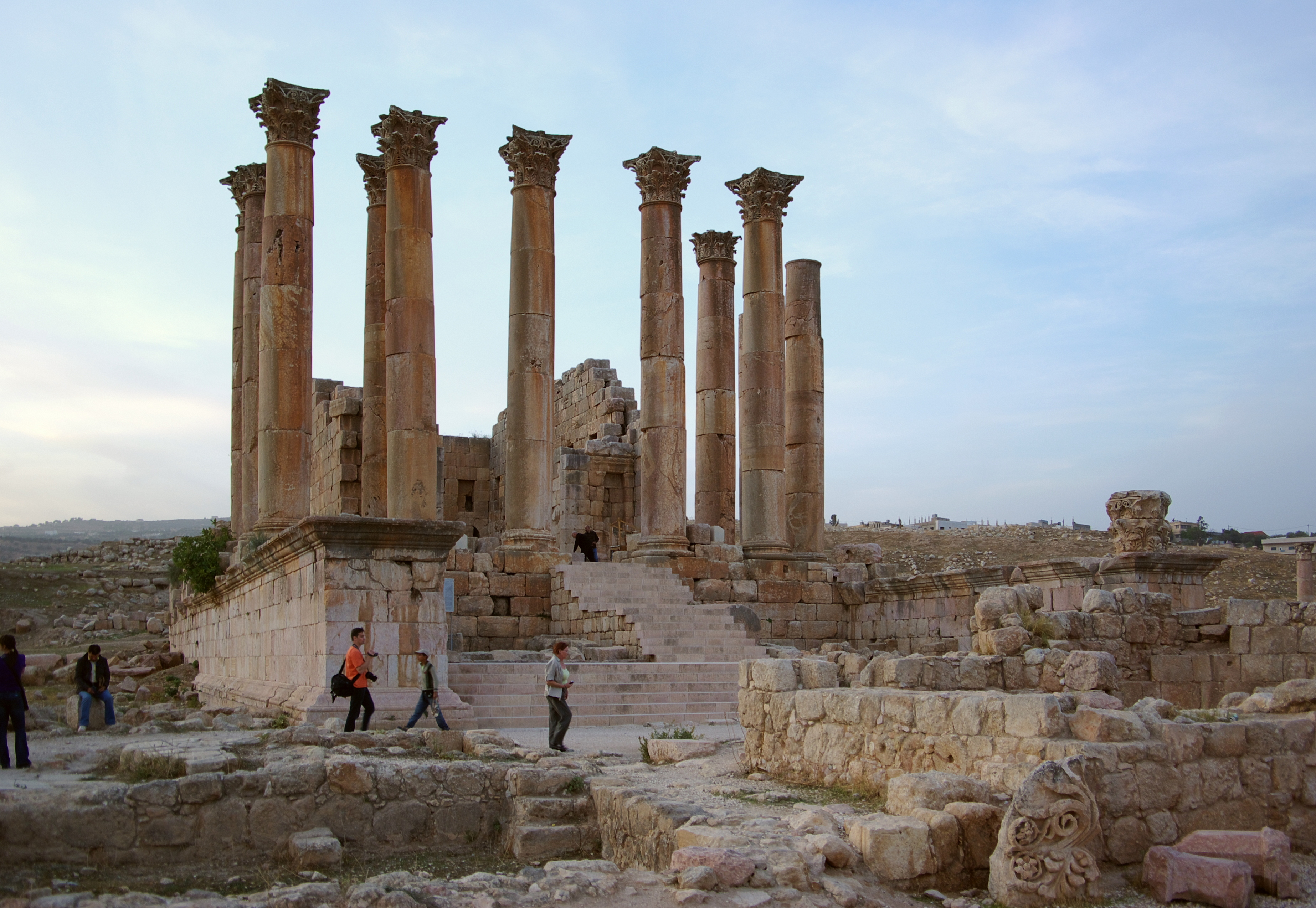 Jerash, Temple of Artemis